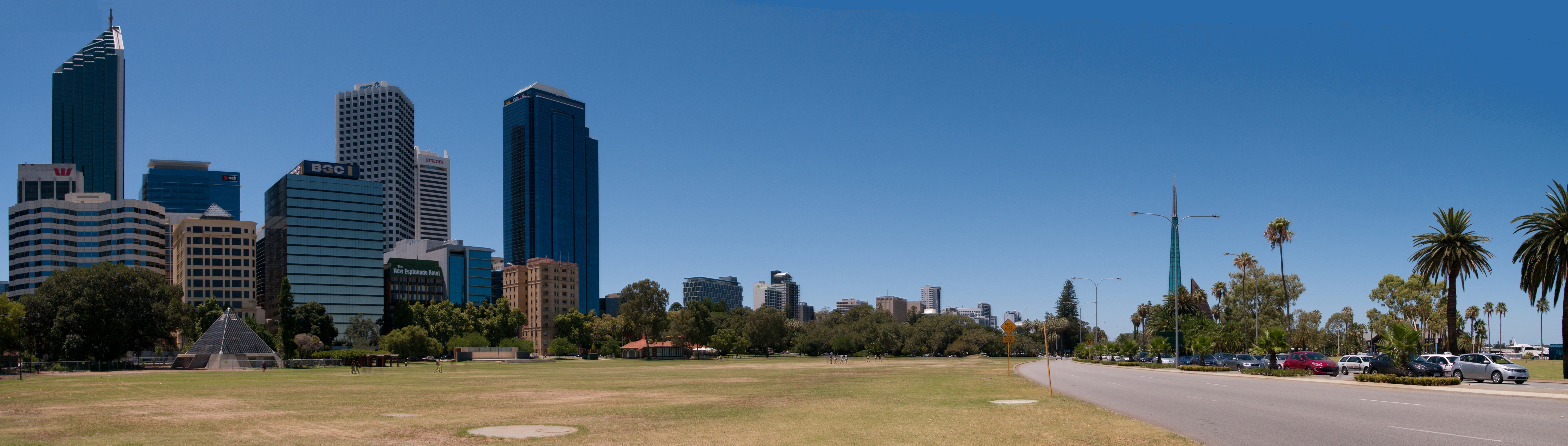 The Esplanade Perth viewed from the south west